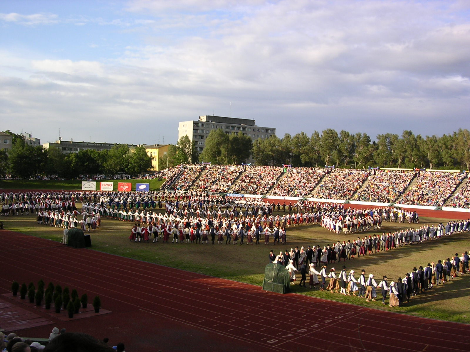 17th Estonian Dance Festival